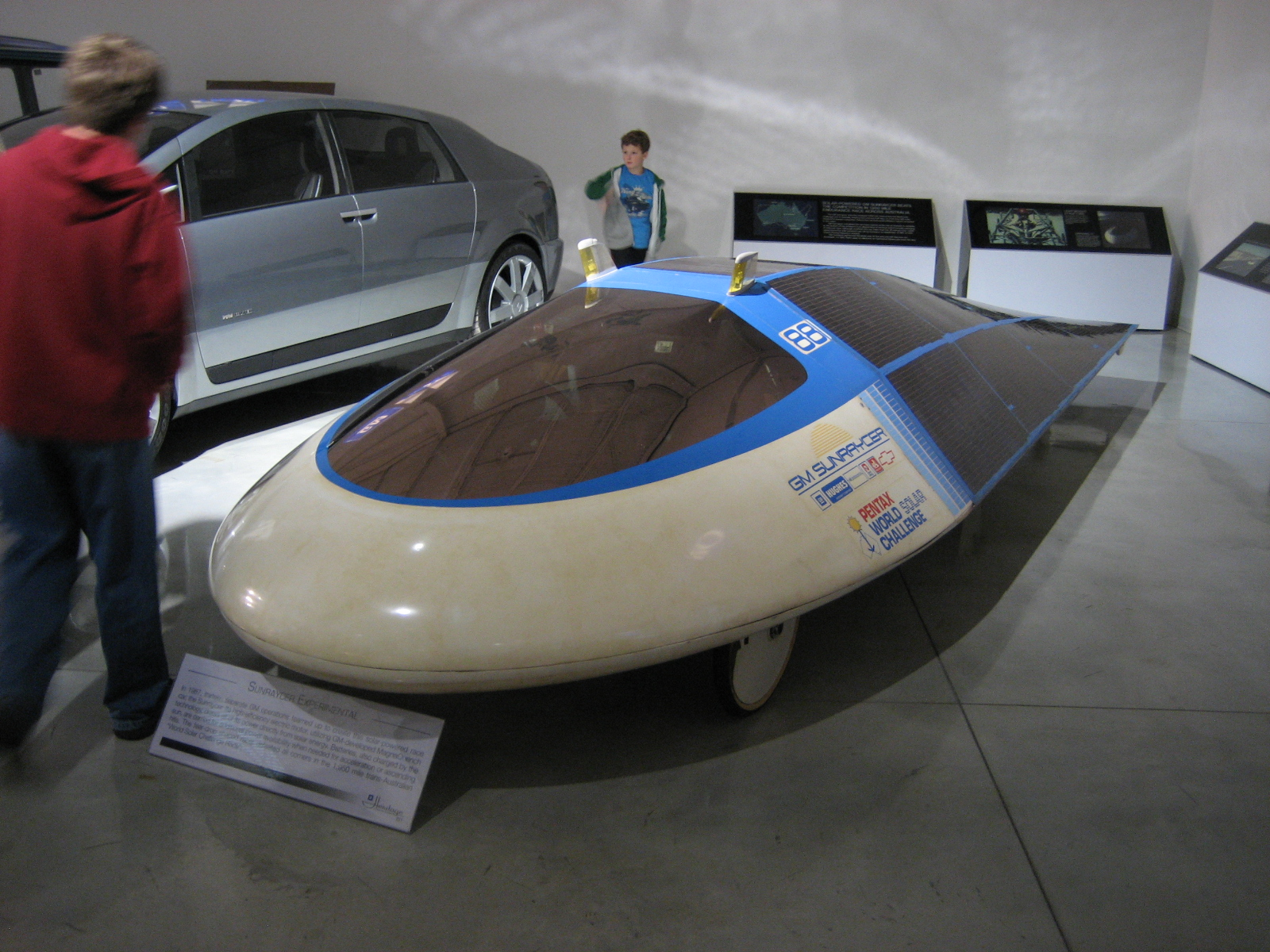 GM Sunraycer car photographed at the GM Heritage Center